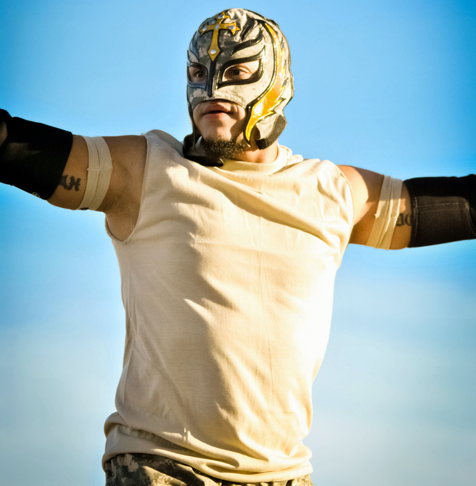 Rey Mysterio at the WWE: Tribute to the Troops 2010.